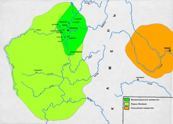 Great Perm and Pelym principalities' XVI c. map. Russian version. Bright green = "Great Permian Principality" Light green = "Giant Perm" Orange = "Pelymsky principality"